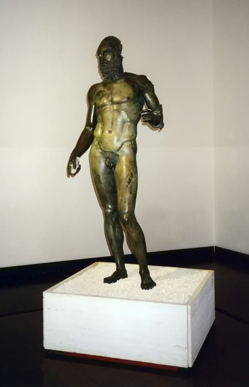 In the year 1972 two bronze statues from greece dating back to 460 until 430 b.c. were found on the bottom of the Ionic Sea near Riace Marina in Calabria in Italy. Since 1981 they are on view in the Museo Nazionale Di Reggio Calabria. The statues are put up on earthquake-proof platforms.